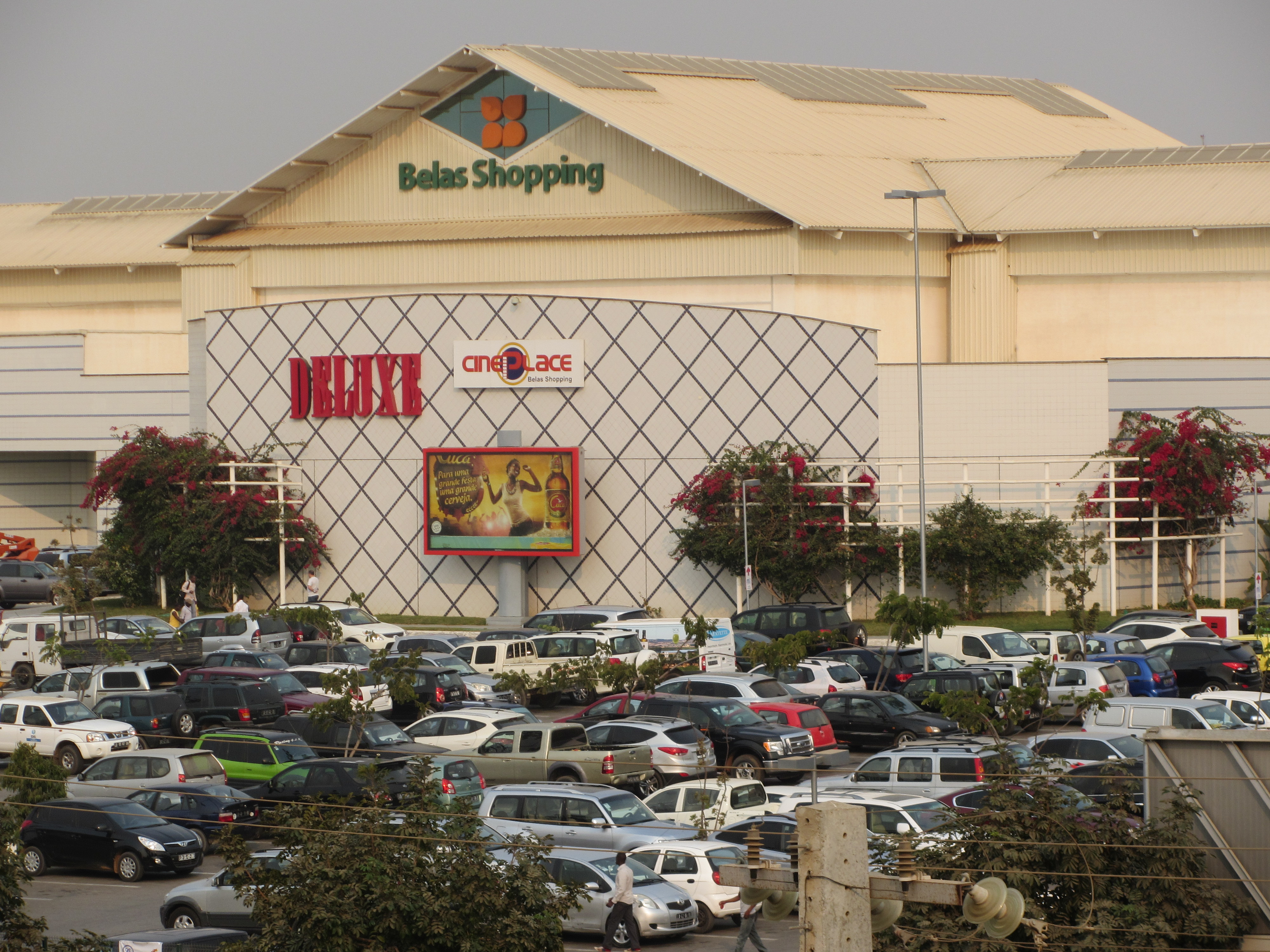 Shopping center "Belas Shopping" in southern Luanda (Angola), Talatona, Av. de Luanda-Sul (Main entrance)